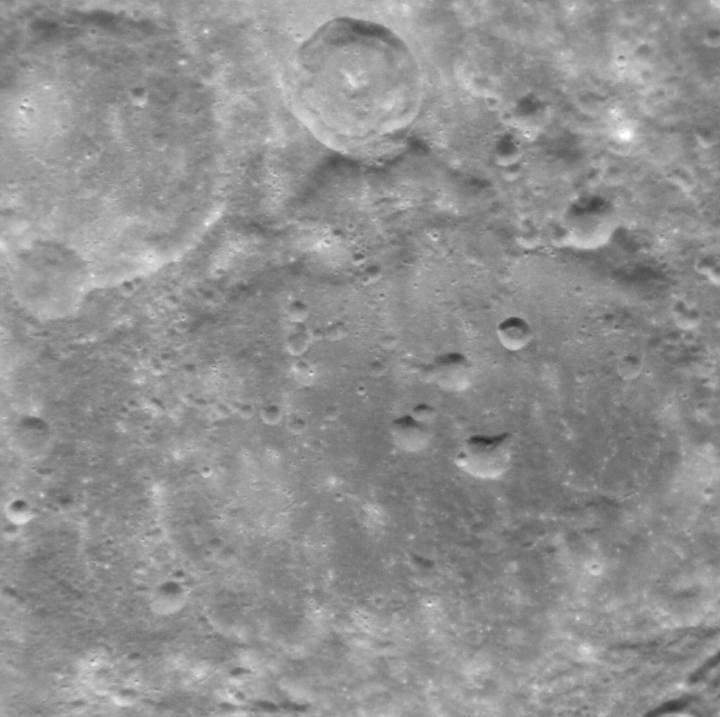 Barma crater on Mercury. MESSENGER Narrow Angle Camera image. Emission Angle: 6.0 Incidence Angle: 44.9 Latitude: -40.7 Longitude: 196.0 Phase Angle: 42.1